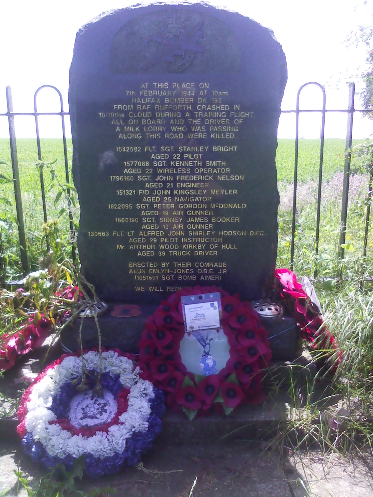 The memorial is situated in the layby on the RHS of the road after you have ascended Garrowby Hill. It is at the end of the layby nearest to GH